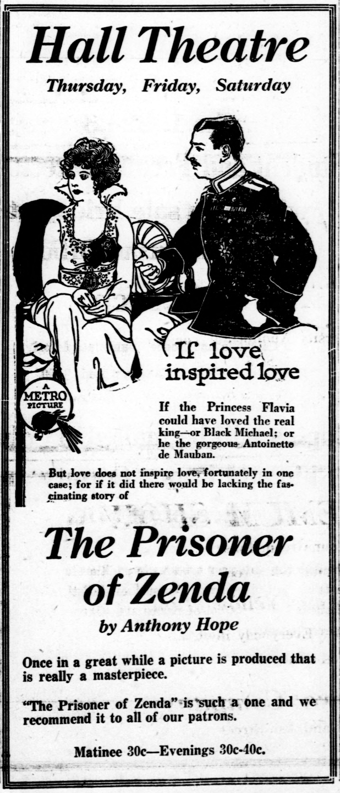 The Prisoner of Zenda is a 1922 silent adventure film, one of the many adaptations of Anthony Hope's popular 1894 novel of the same name and the subsequent 1896 play by Hope and Edward Rose. This is a newspaper advert for the film.